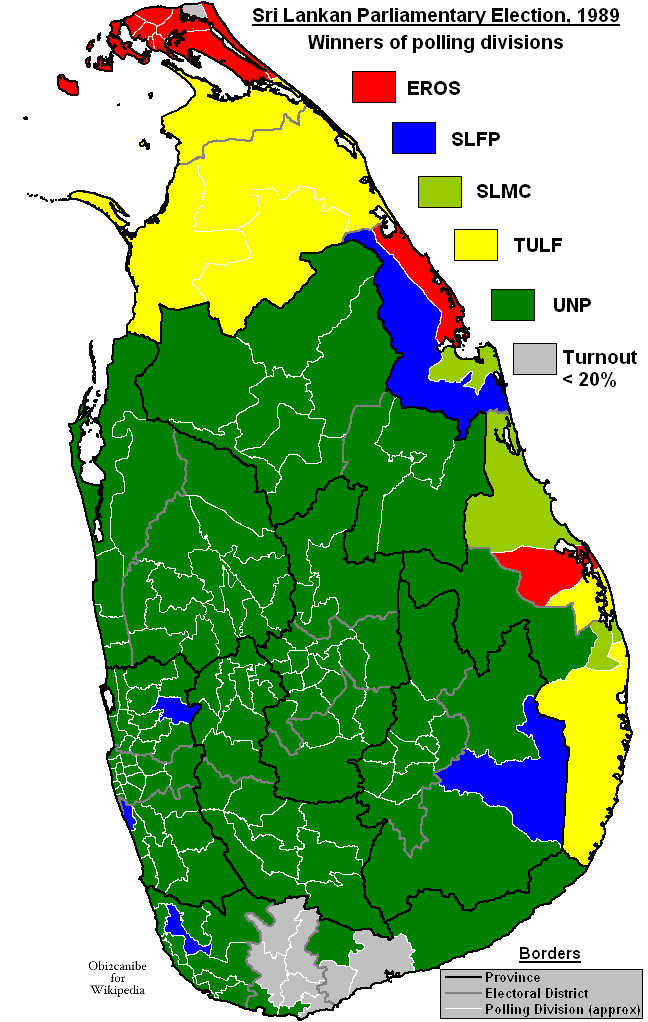 Map showing winners of electoral districts in the Sri Lankan parliamentary election of 1989.